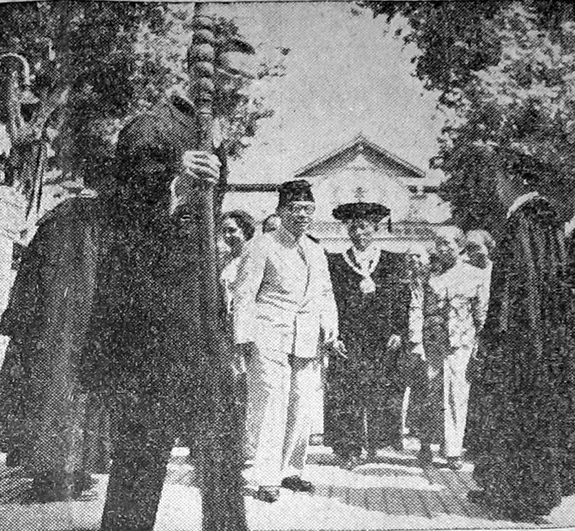 Sardjito leading dies natalis celebrations at Gadjah Mada University in Yogyakarta